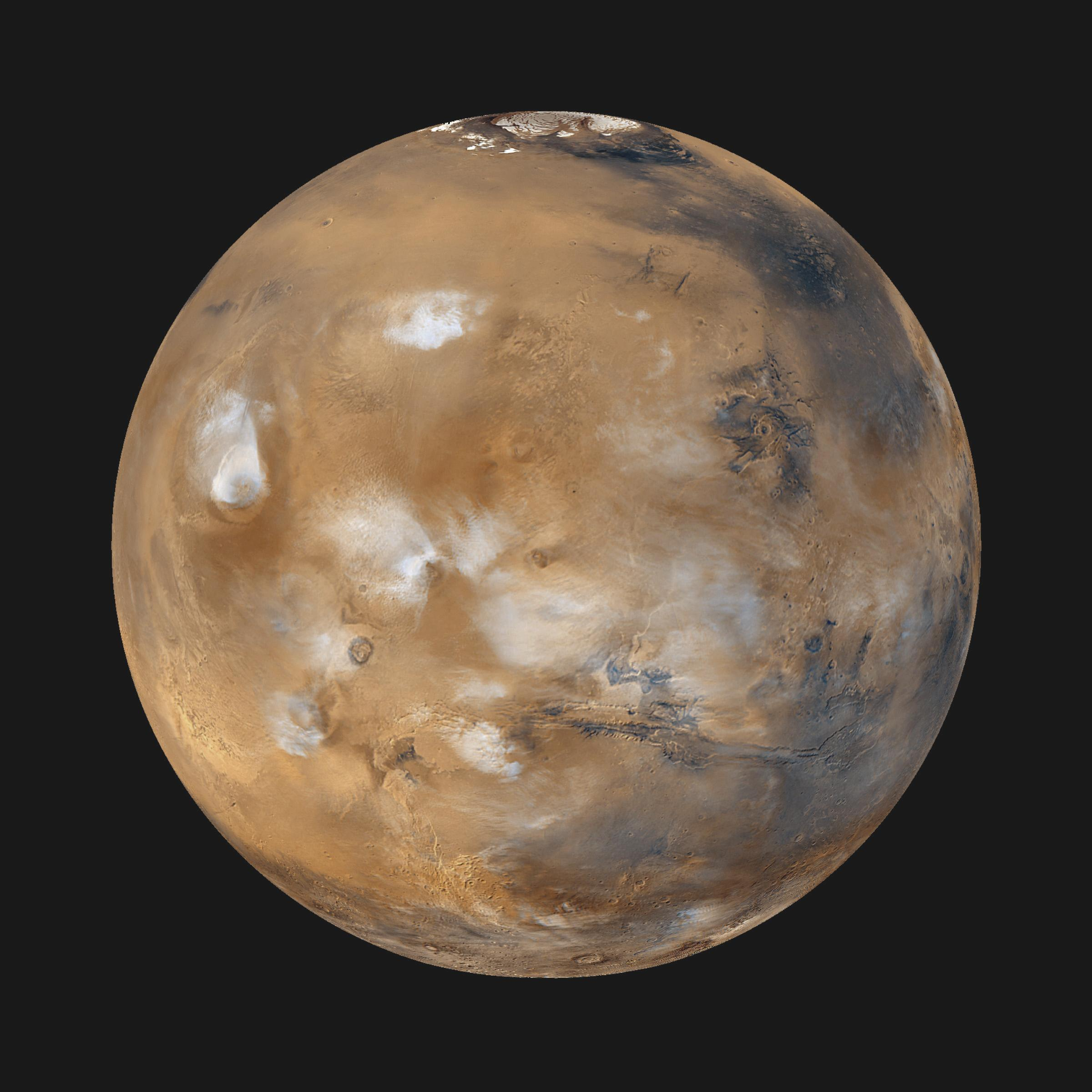 Blueish-white water ice clouds hang above the volcanoes of Tharsis, on Mars.Features annotated in Wikimedia Commons include: Acidalia Planitia, Alba Mons, Aram Chaos, Ares Vallis, Argyre Planitia, Arsia Mons, Ascraeus Mons, Ceraunius Tholus, Chasma Boreale, Chryse Planitia, Claritas Fossae, Echus Chasma, Ganges Chasma, Hebes Chasma, Juventae Chasma, Kasei Valles, Lomonosov, Lowell, Milankovic, Mutch, Noctis Labyrinthus, Olympus Mons, Pavonis Mons, Planum Boreum, Tempe Fossae, the Tharsis Montes, Tharsis Tholus, Uranius Mons, Uranius Tholus, Valles Marineris and Vastitas Borealis.